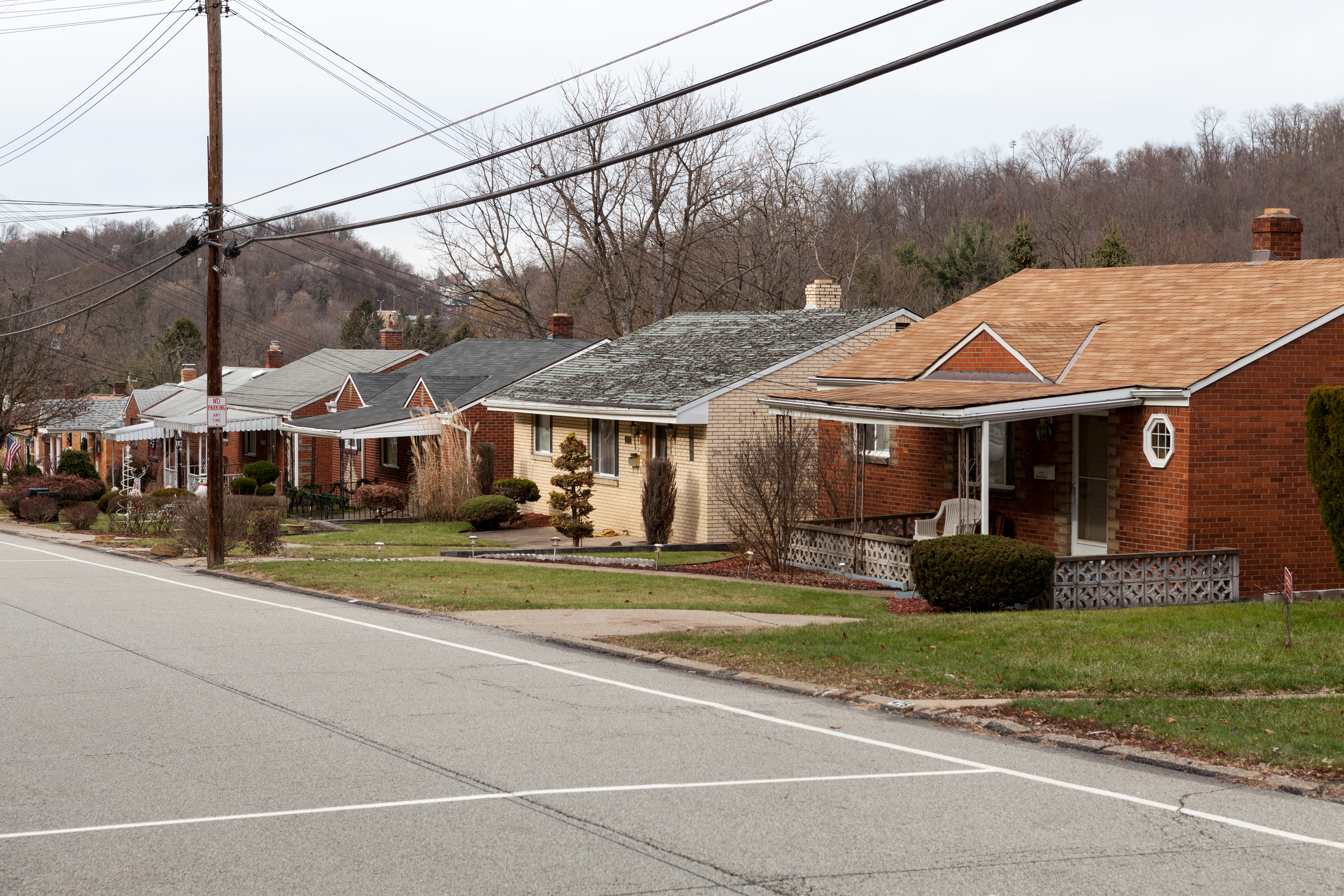 A row of houses on Pearce Rd in Baldwin Township, Allegheny County, Pennsylvania